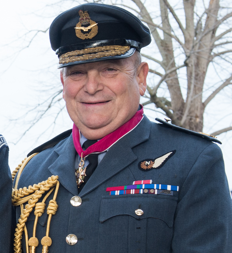 U.S. Marine Corps Gen. Joseph F. Dunford, Jr., chairman of the Joint Chiefs of Staff; Air Commodore Mick Smeath, and Air Chief Marshal Sir Stuart Peach, United Kingdom Chief of Defense, pose for a group photo after an Armed Forces Full Honor Arrival Ceremony at Joint Base Myer-Henderson Hall, April 6, 2018. During the ceremony, the Legion of Merit award was presented to Peach for his efforts to bolster key military support for the Defeat-ISIS Coalition contributing to the significant degradation of ISIS in Iraq and Syria. This is Air Chief Marshal Peach’s last visit before he transitions into a new role as the Chairman of the NATO Military Committee. (DoD Photo by U.S. Army Sgt. James K. McCann)